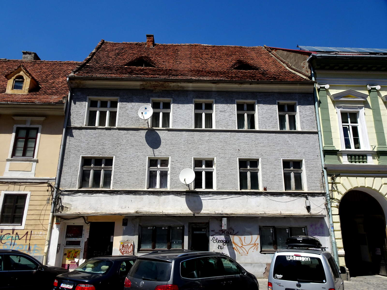 House in Bălcescu street, Brașov